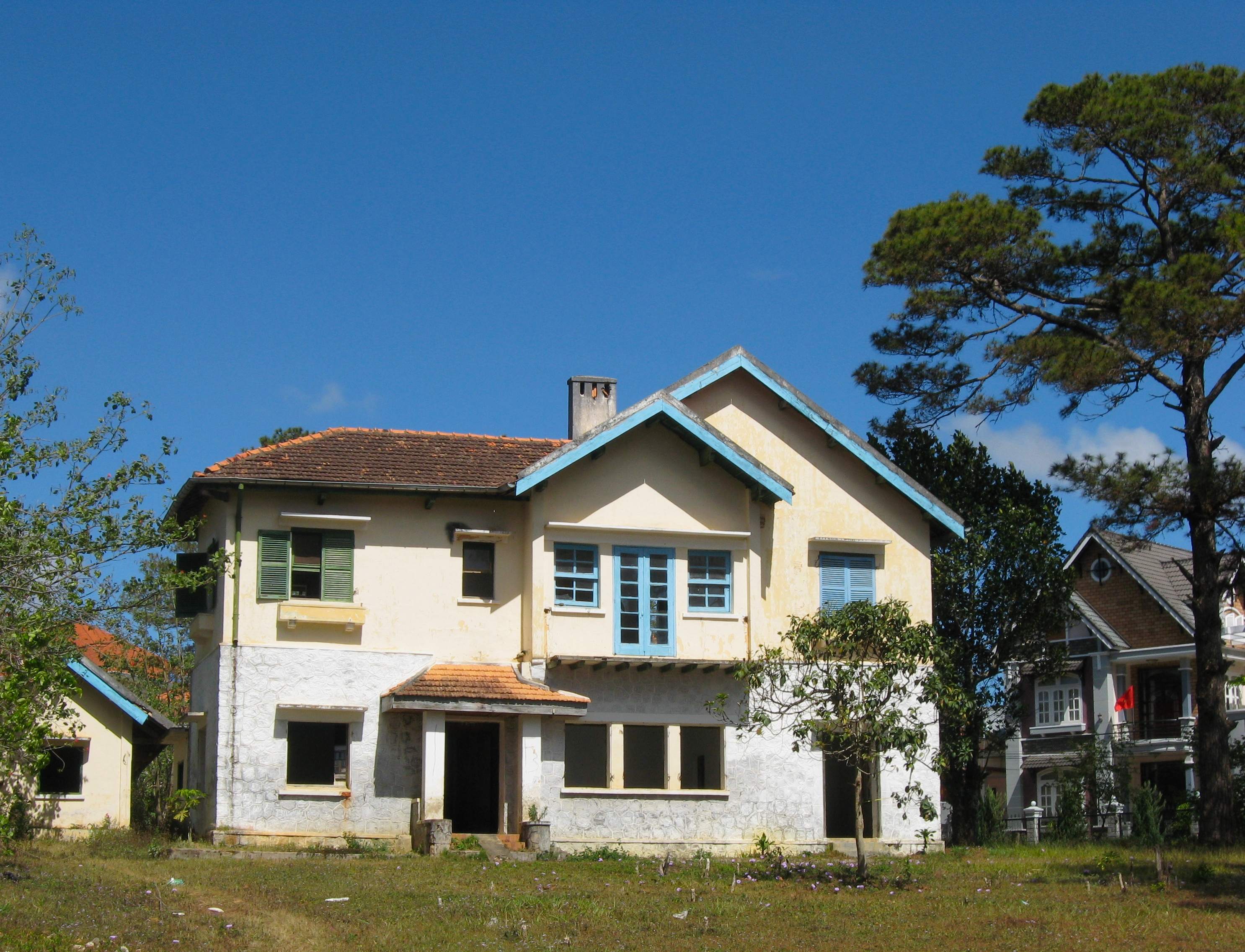 Villa in Da Lat